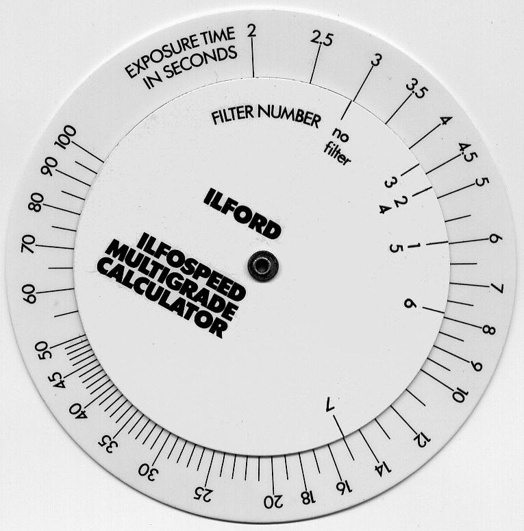 Circular sliding rule for photographic works